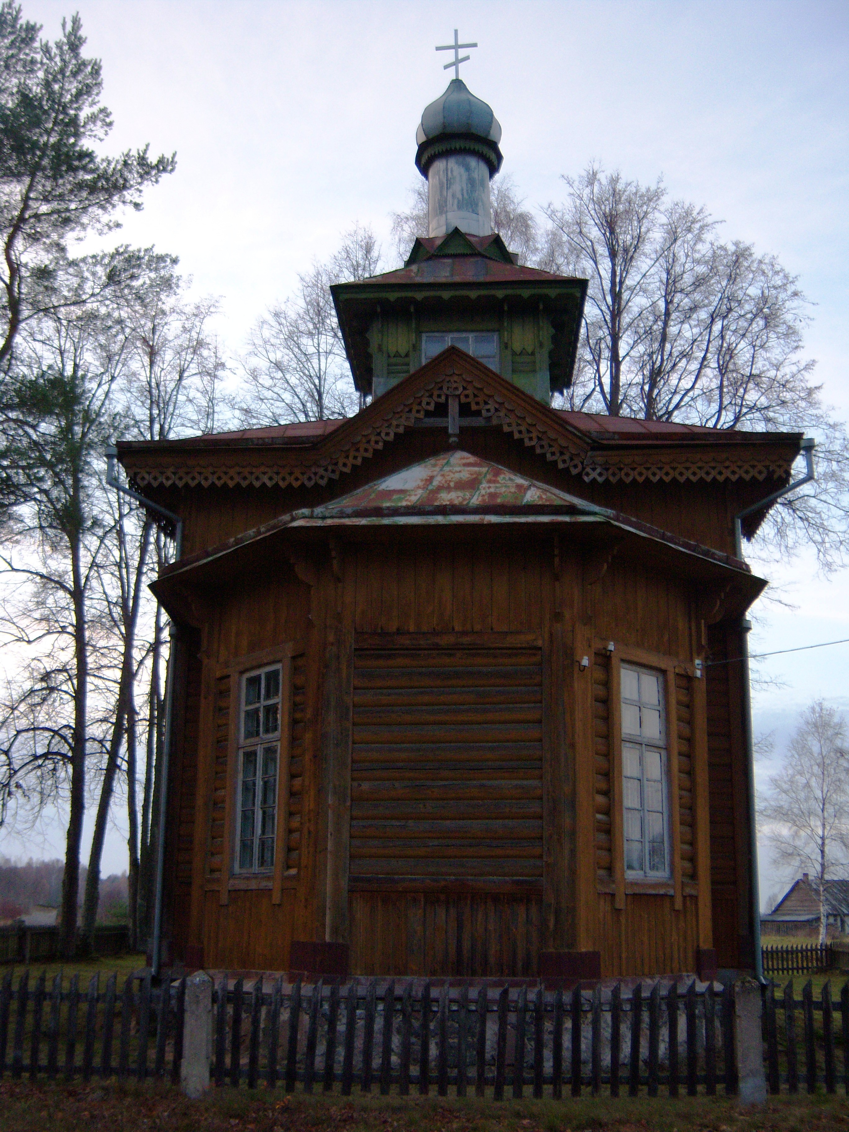 Orthodox church of the Holy Martyr Nicander in Lebeniškiai, Biržai District, Lithuania